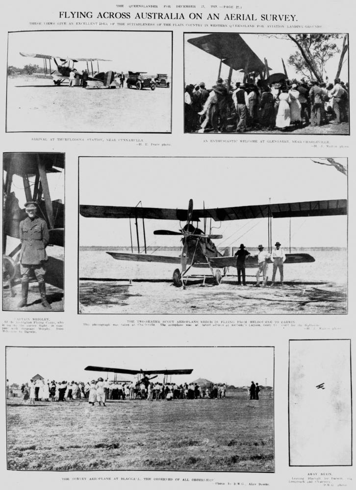 Flying across Australia on an aerial survey, 1919. Captain Wrigley flew his Scout aeroplane across Australia on an aerial survey.